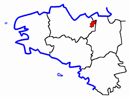 Description: Map for localisazion of cantons of Bretagne region in France Source: made by Hervé Tigier in april 2005 from another large map (published in 1990)